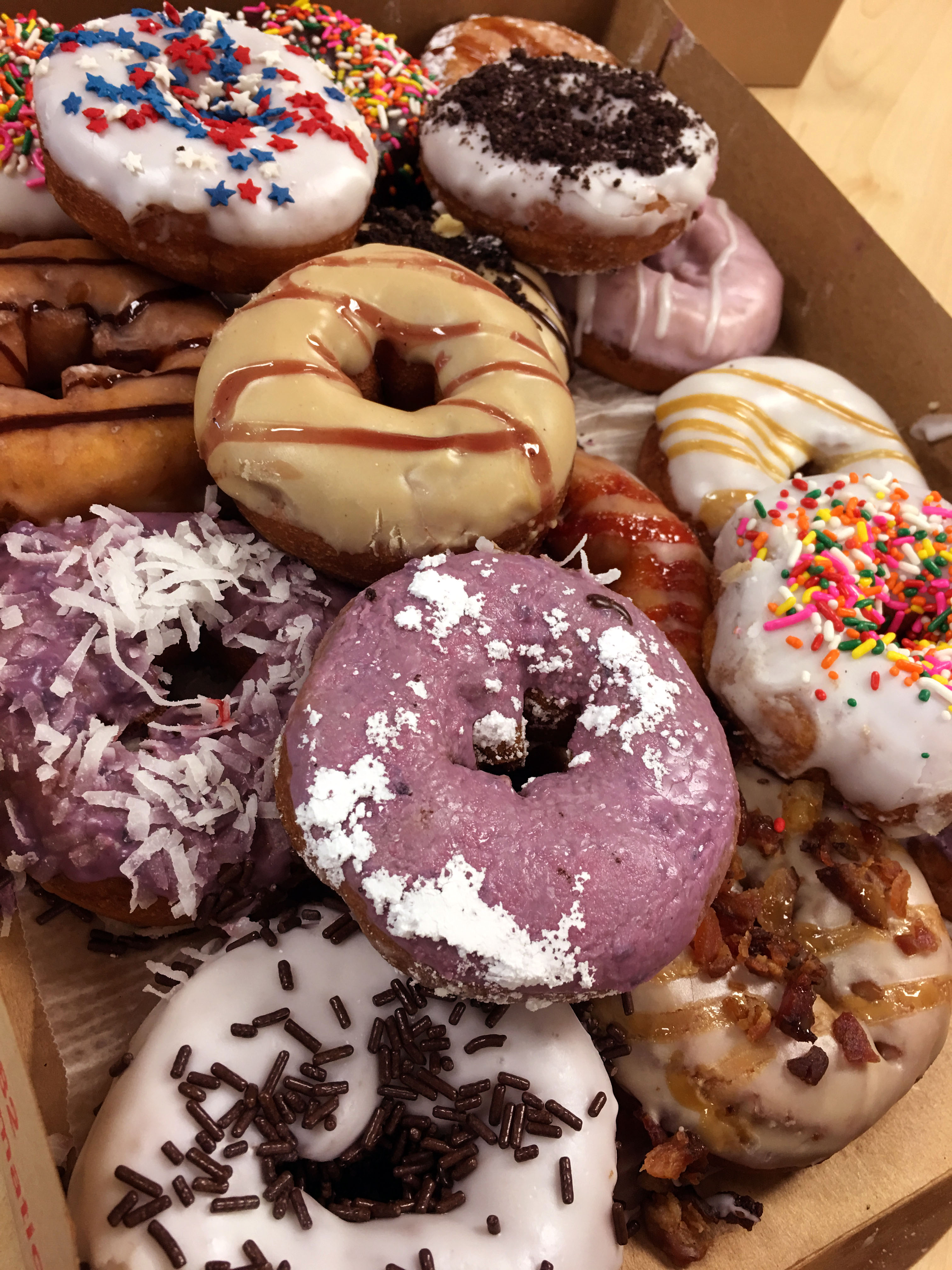 A box of assorted doughnuts from Duck Donuts.